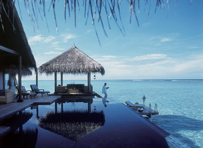 Taj Exotica Resort & Spa, Maldives - Rehendi Suite Deck Service